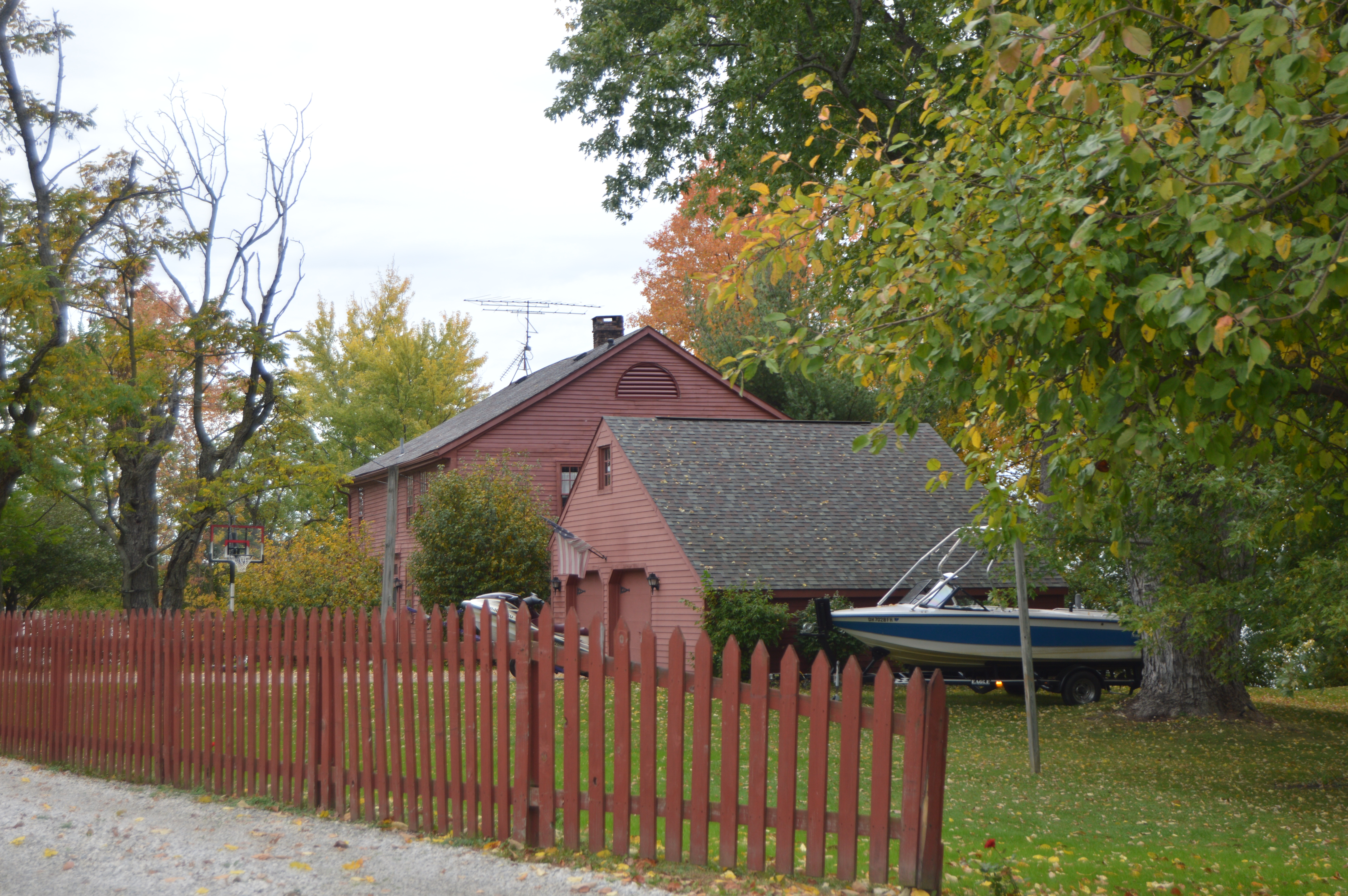 Southern side and front of the Daniel Vaughn Homestead, located at the end of Pine Drive in Lake Milton, Ohio, United States. Built in 1811, it is listed on the National Register of Historic Places.